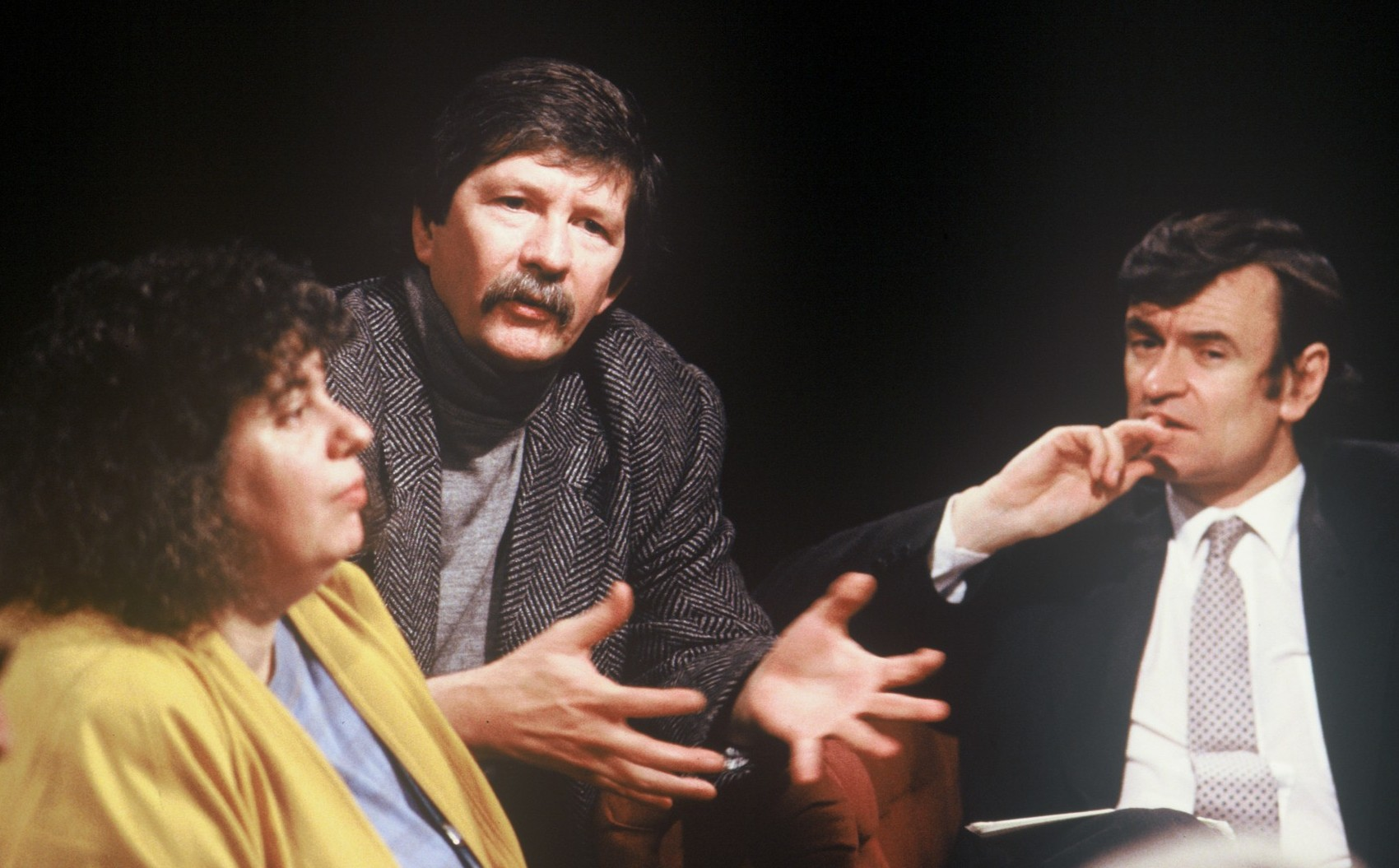 Andrea Dworkin and Jim Haynes appearing on television programme After Dark hosted by Anthony Clare on 21 May 1988, (c) Open Media Ltd 1988